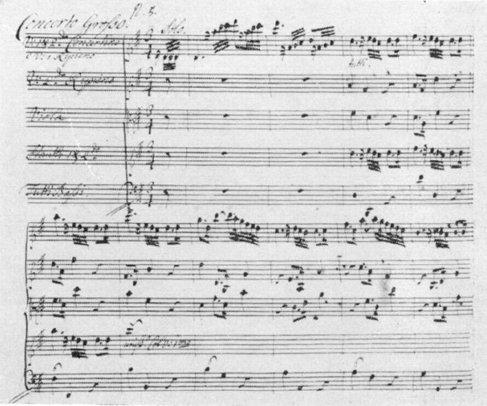 The fifth of Handel concerti grossi Op.6, Aylesford manuscript, from the collection of Sir Newman Flower, Manchester Public Libraries